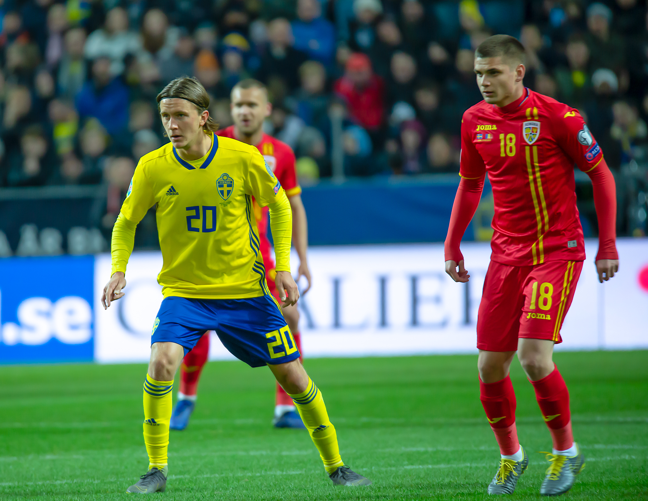 UEFA EURO qualifiers Sweden vs Romaina 20190323